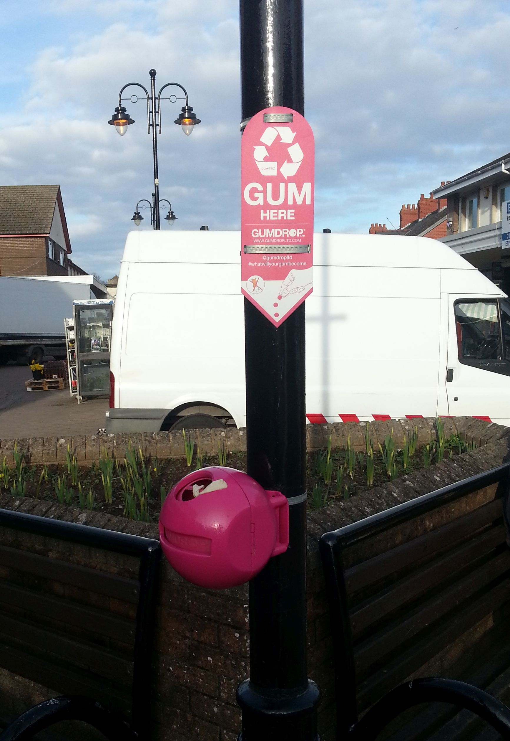 Chewing gum collecting bin. Made from recovered polyisobutylene, recycled from chewing gum. Caldicot, South East Wales